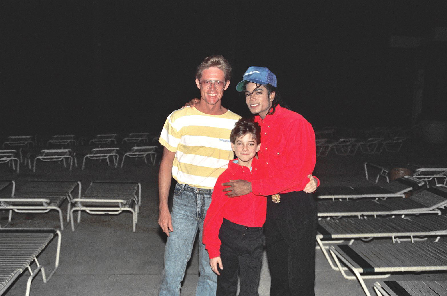 COMMENT: _____________________________________________ The boy, Jimmy Safechuck, had appeared in a Pepsi commercial with Michael and was traveling with him. He was sexually abused by Michael Jackson between 1988 and 1992 according to the documentary LEAVING NEVERLAND. The sexual abuse began in early June of 1988 in a Paris hotel room, about 4 months after this photograph was taken. ______________________________________________ Shot #2 of 2 - Michael told me he blinked during the taking of the first photo and suggested we take another - this one's better. The first photo is here: Michael Jackson was staying at the same hotel I was at for 3 days, The Kahala Hilton in Honolulu Hawaii, in late February 1988. Michael was in Hawaii to make a personal appearance at a Pepsi bottler's convention. This time in Michael's life (he was 29 years old) was four years after his scalp was severely burned in a mishap during filming of a Pepsi commercial, two years after he was diagnosed with vitiligo, a skin condition, and one month before he bought land in Santa Barbara, CA, for what would become Neverland. Scanned from the original 35MM film negative. High resolution negative san - 256 pixels/inch. NOTE: Permission granted to copy, publish, broadcast or post any of my photos, but please credit "photo by Alan Light" if you can. Thanks.